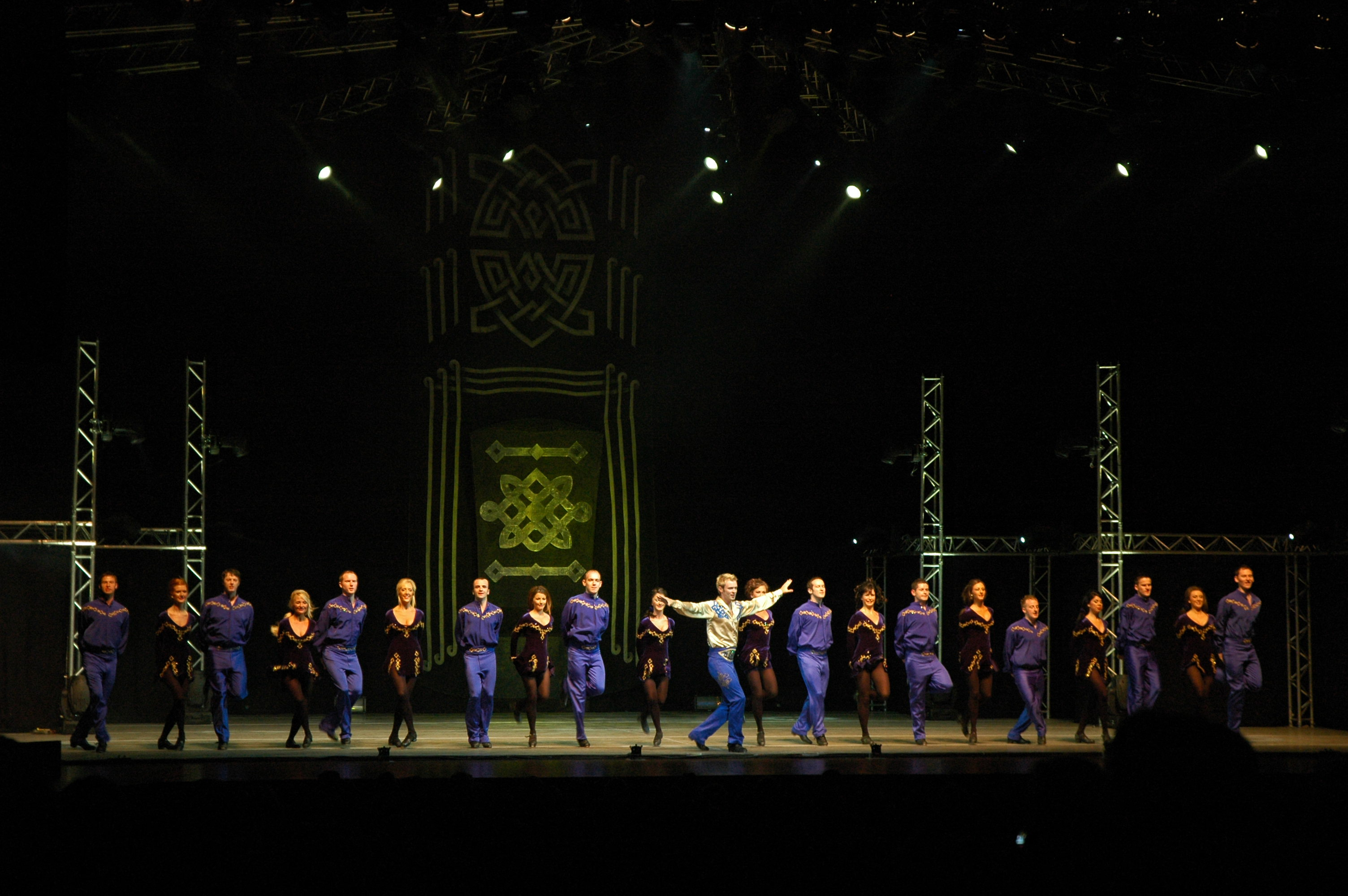 "Lord of the Dance" show of Michael Flatley, part 1 "Cry Of The Celts" with "Lord of the Dance" and "The Clan".